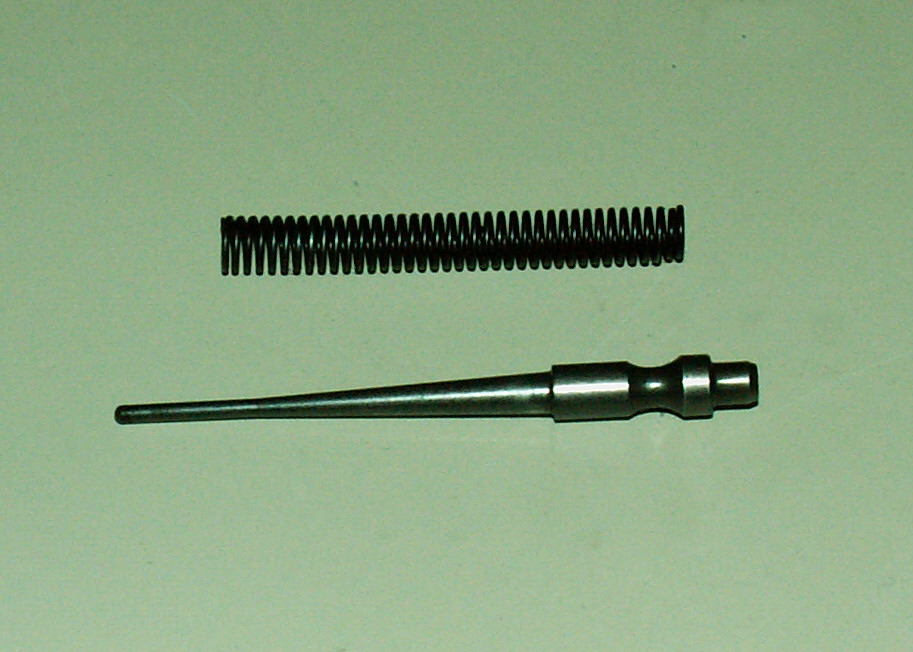 Para Ordnance P16-40 firing pin and spring